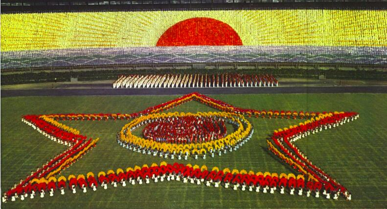 1965-12 1965年全运会团体操 革命赞歌